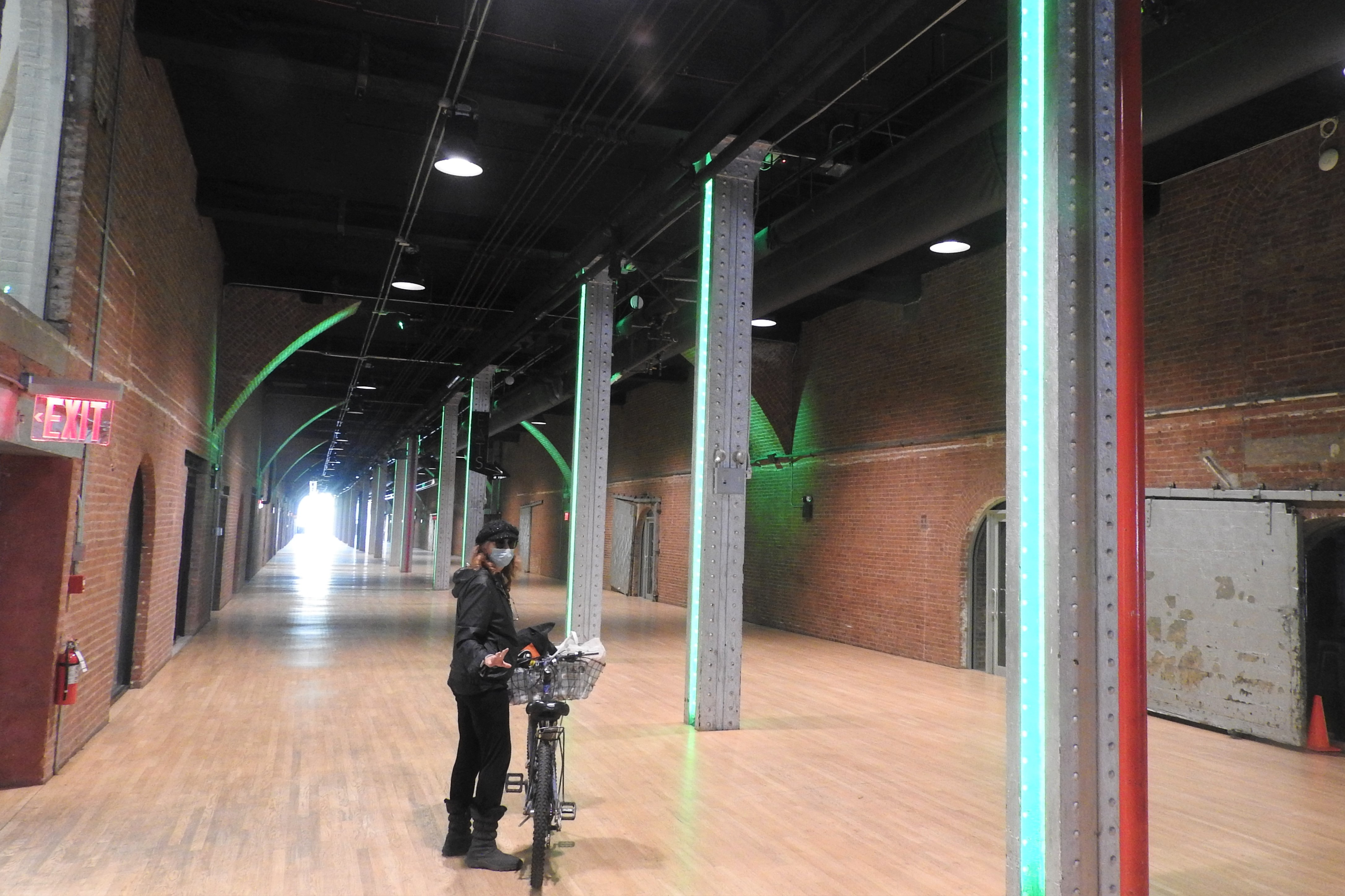 Looking northwest inside lobby of Terminal Stores building during pandemic